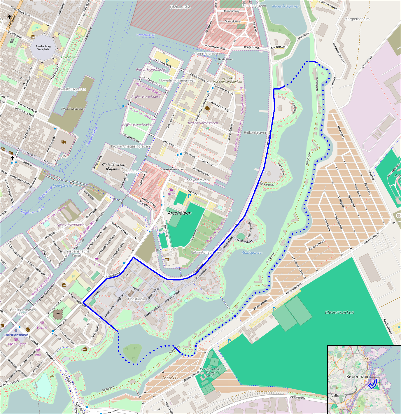 This map may be incomplete, and may contain errors. Don't rely solely on it for navigation.